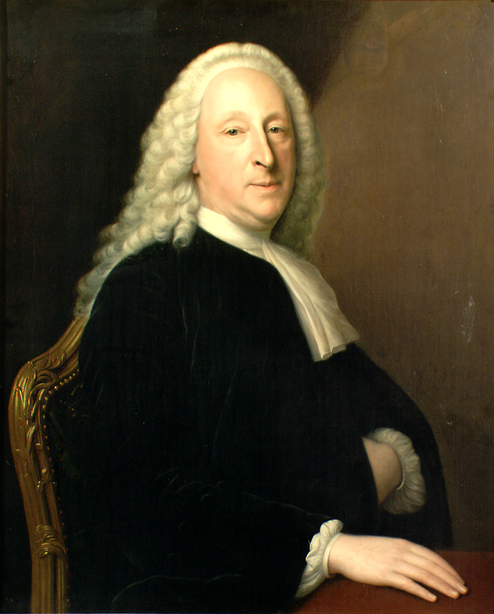 Wilhem van Citters (1723-1802), Grand Pensionary of Zeeland, Representative of the First Noble in Zeeland